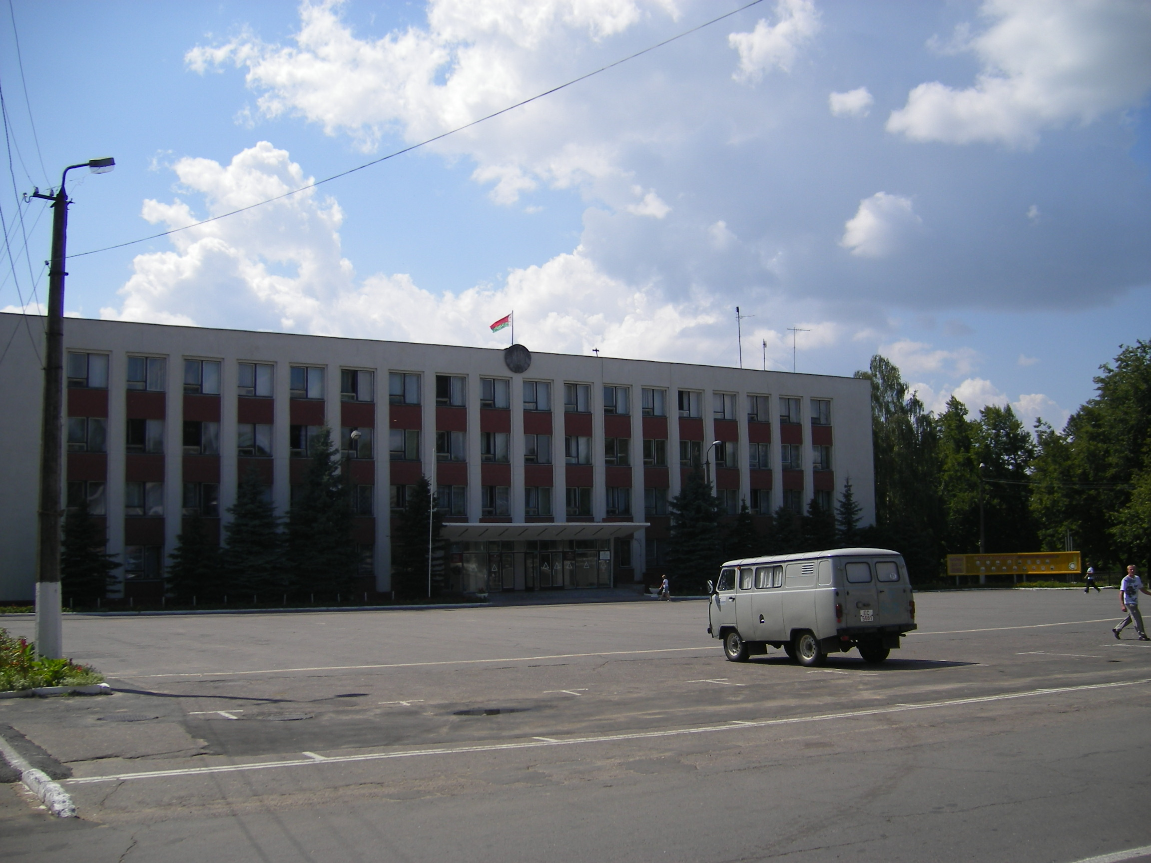 Karma (Homel Oblast), Raion Administration Building